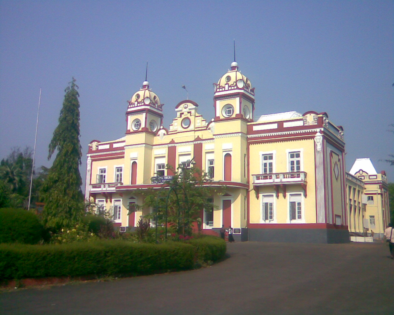 This media file is uploaded with Malayalam loves Wikimedia event - 2.